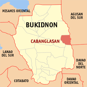 Map of the Bukidnon showing the location of Cabanglasan